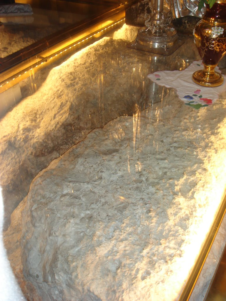 Church of the Holy Sepulchre (Jerusalem).